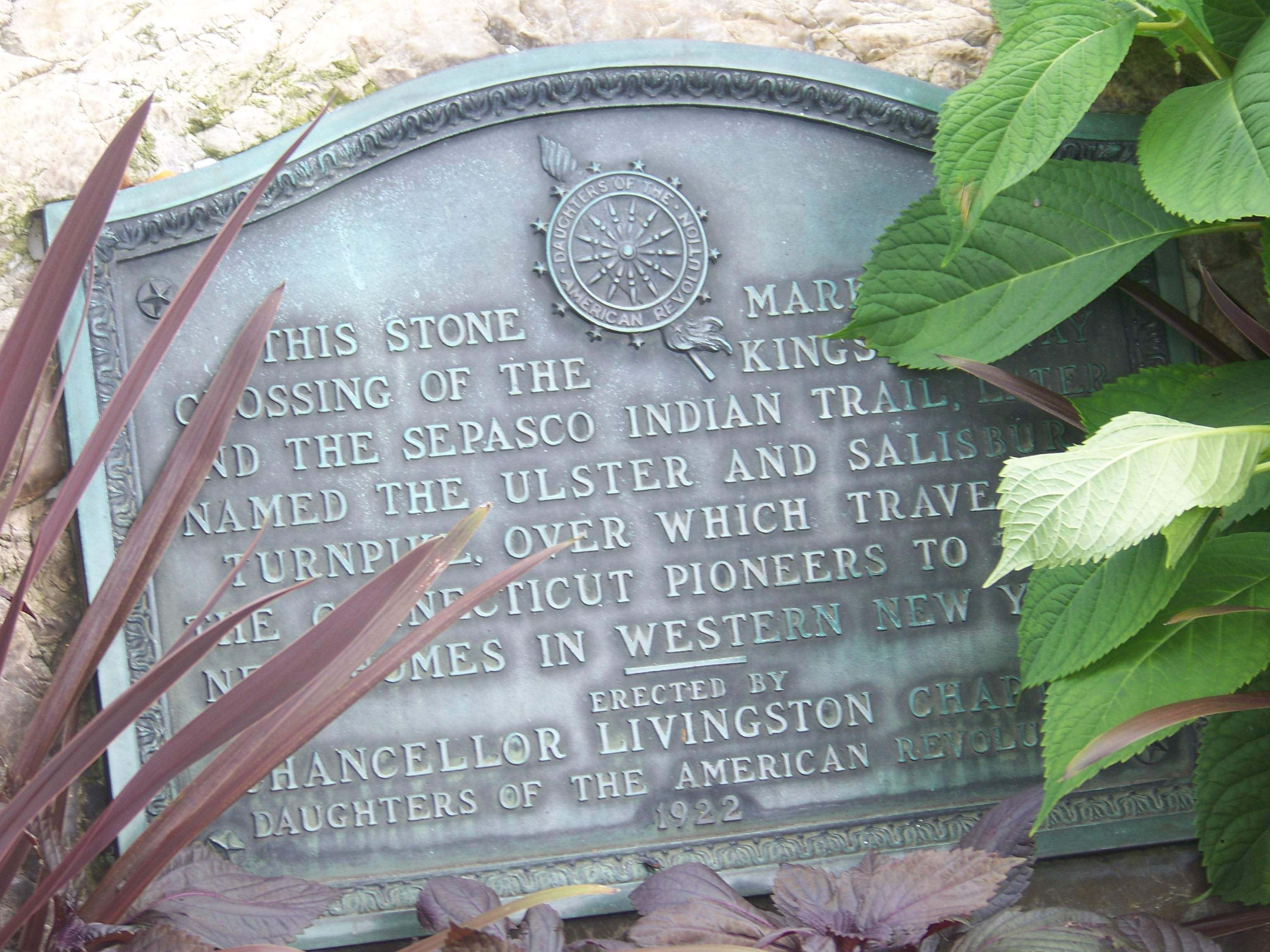 A plaque, placed in 1922, at the intersection of US 9 and NY 308 in Rhinebeck, New York reads, "This stone marks the crossing of the Kings Highway and the Sepasco Indian Trail, later named the Ulster and Salisbury Turnpike, over which traveled the Connecticut Pioneers to their new homes in western New York."